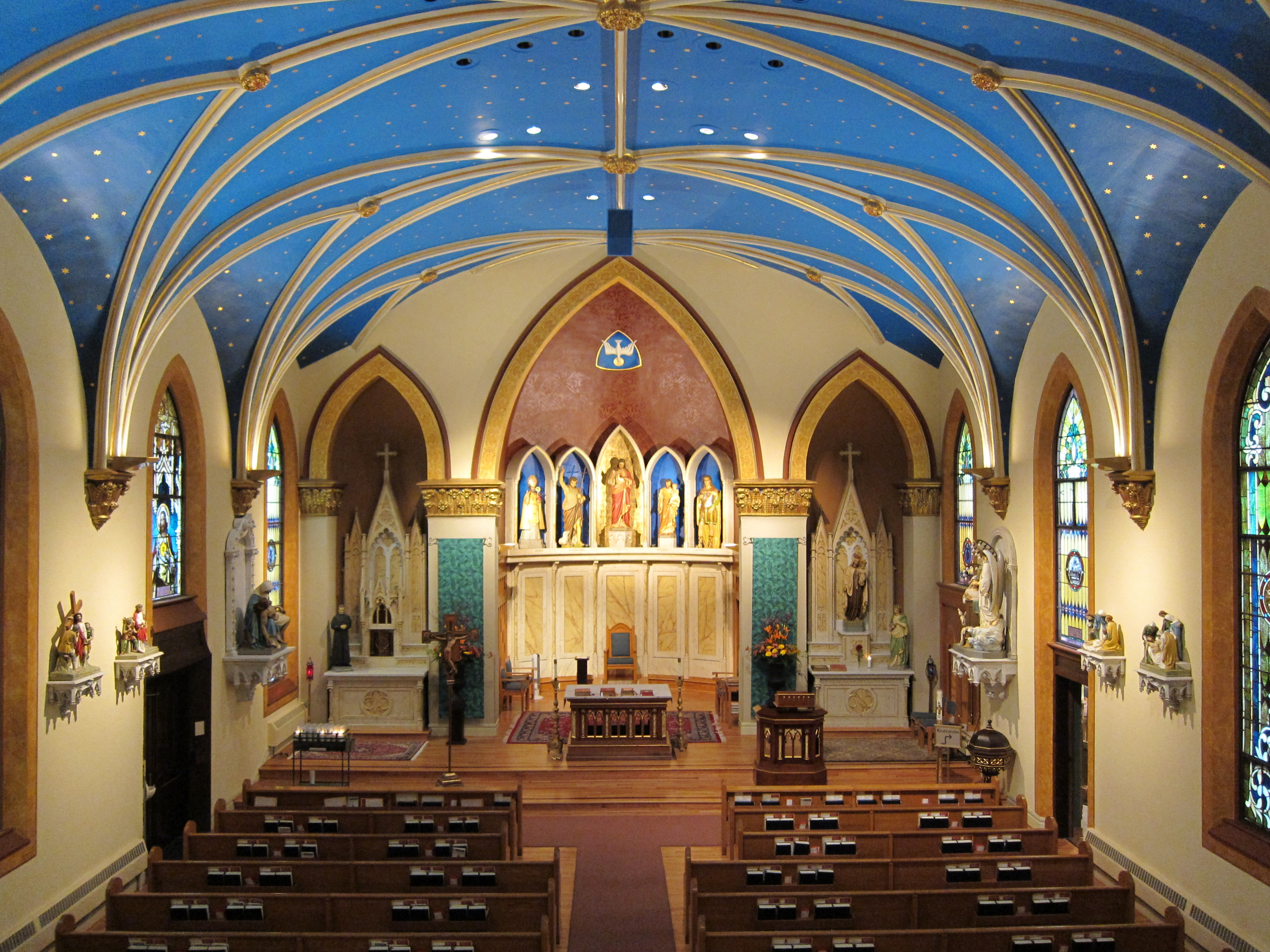 St. John the Baptist Italian Catholic Church, Columbus, Ohio; view of the nave and sanctuary from the organ loft